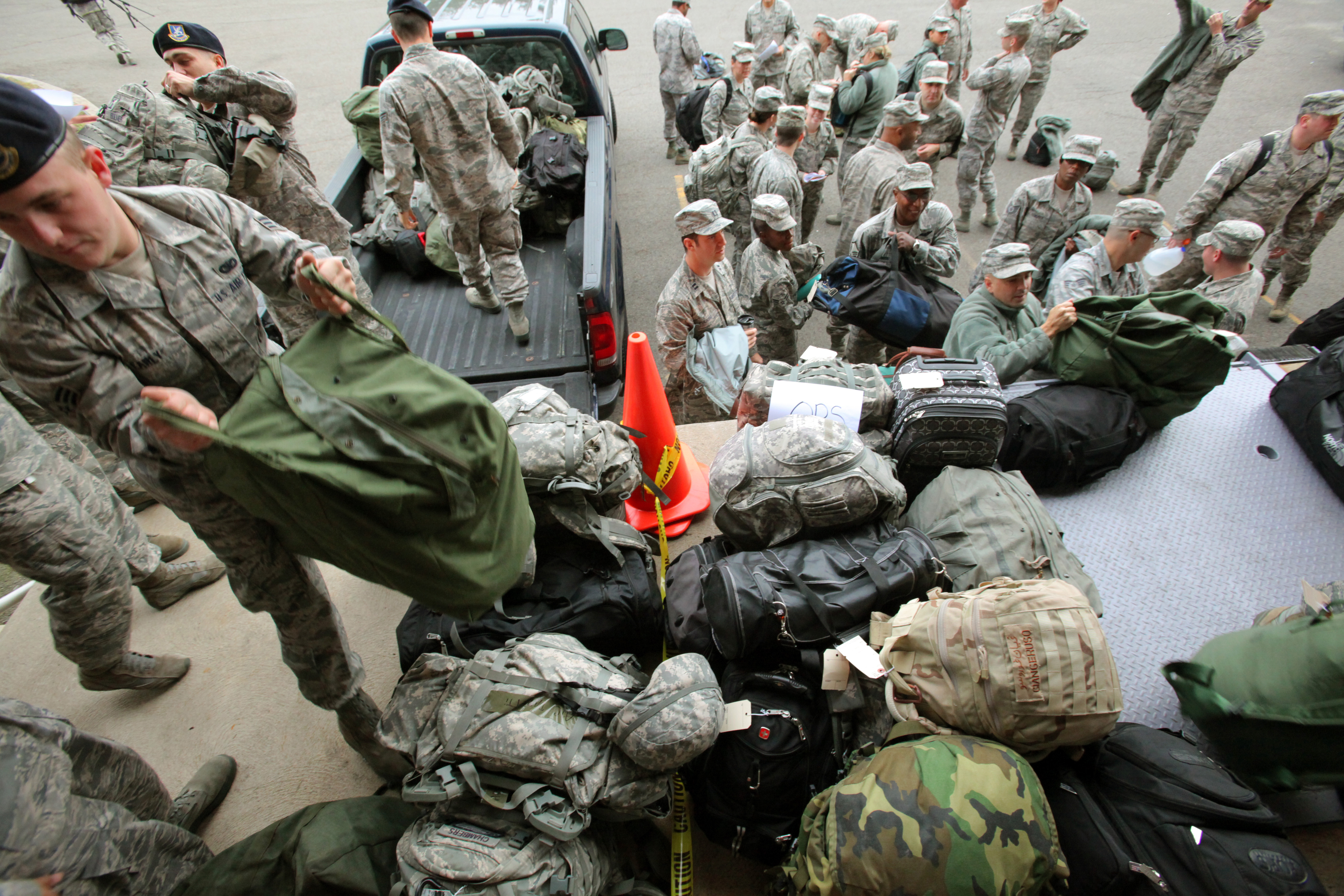 Airmen of the New Jersey National Guard's 108th Wing are processed in at Joint Base McGuire-Dix-Lakehurst, N.J., before being sent out to assist at various emergency shelters prior to the landfall of Hurricane Sandy, Oct. 28, 2012. (U.S. Air Force photo by Master Sgt. Mark C. Olsen/Released)